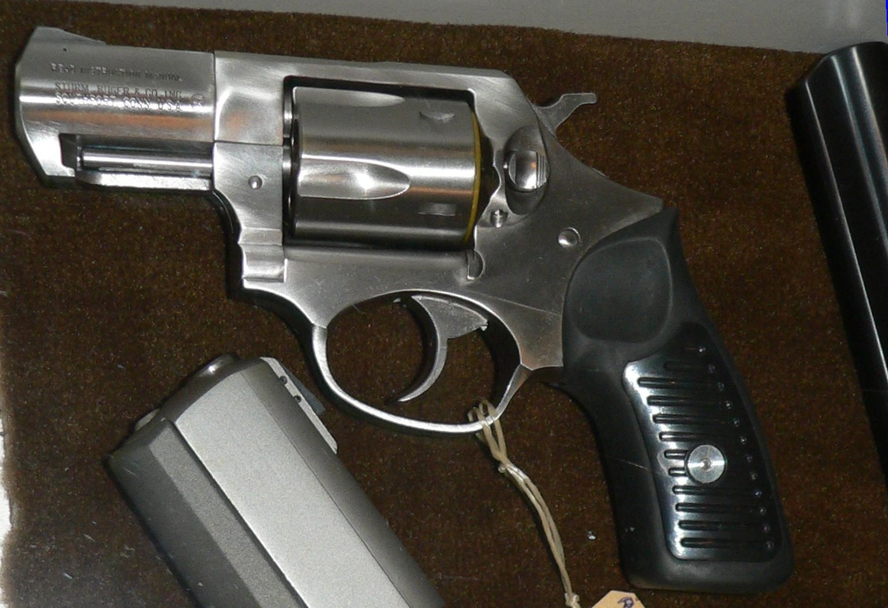 modern revolver Ruger SP101 cal .38 Special